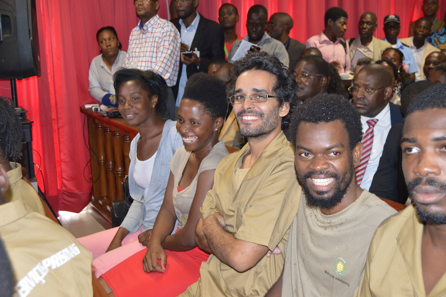 Activists Rosa Conde, Laurinda Gouveia, Luaty Beirão at the court in Luanda, Angola